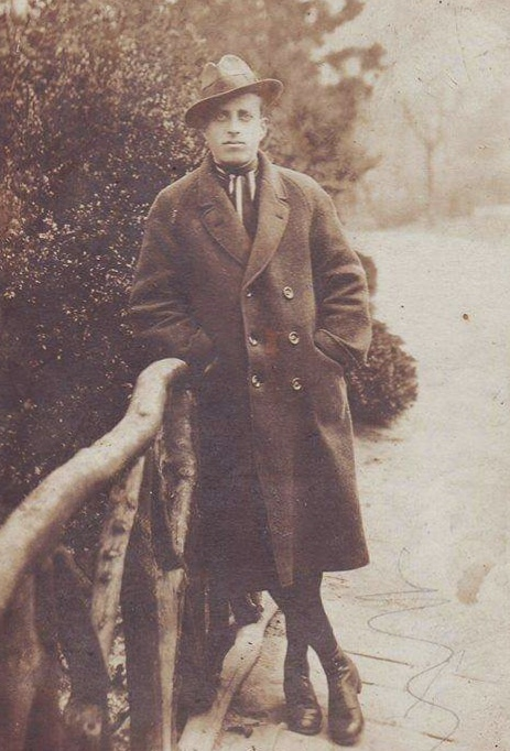 Ymer Bali standing in front of a garden in Vienna, Austria